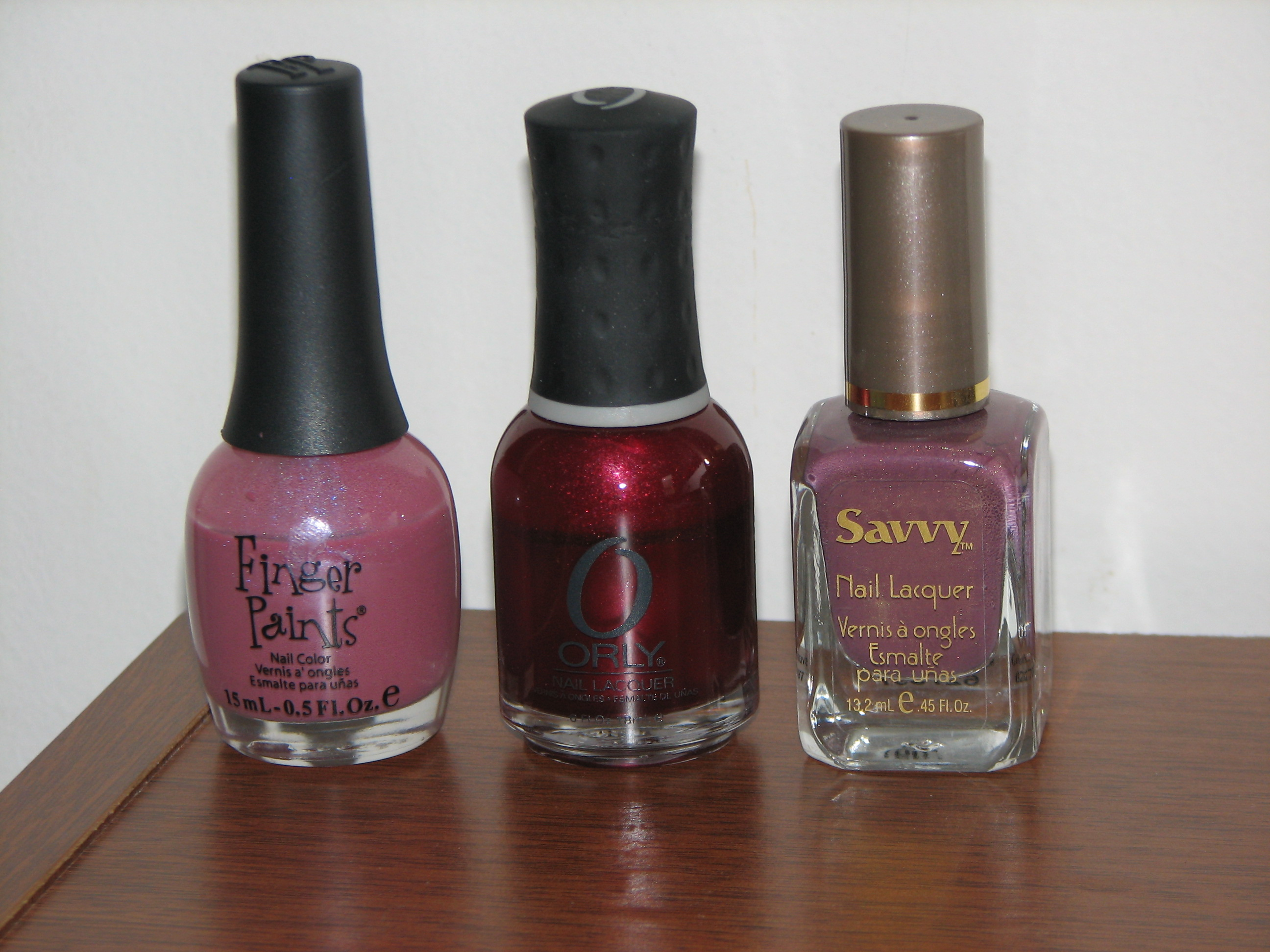 Three bottles of different nail polish colors and brands.